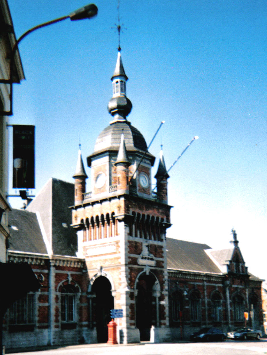 The old railway station of Oudenaarde, Belgium. It is currently used as an exhibition hall. The present station is adjacent to it.